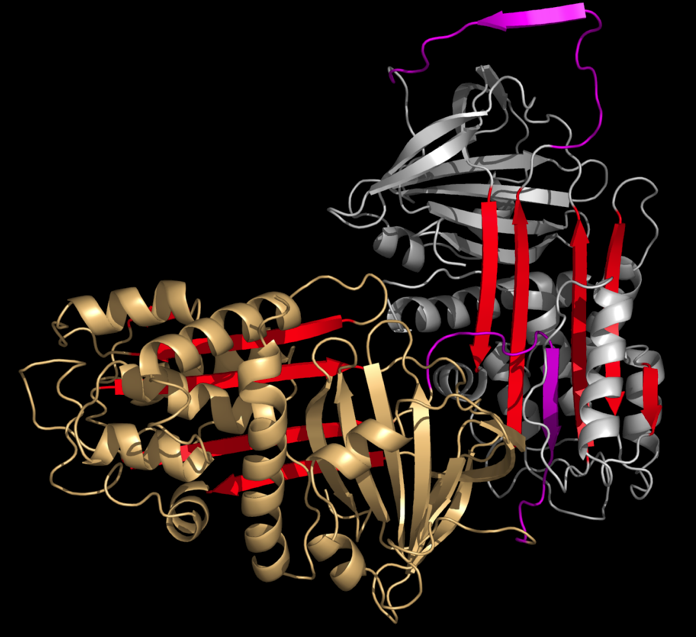 Model of an A-sheet polymer